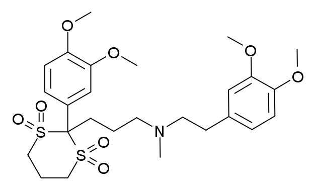 Structure of dimeditiapramine